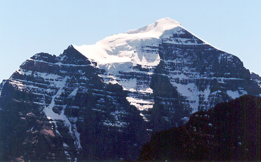 Mount Temple (3,543m/11,624') North face - Banff National Park Canada